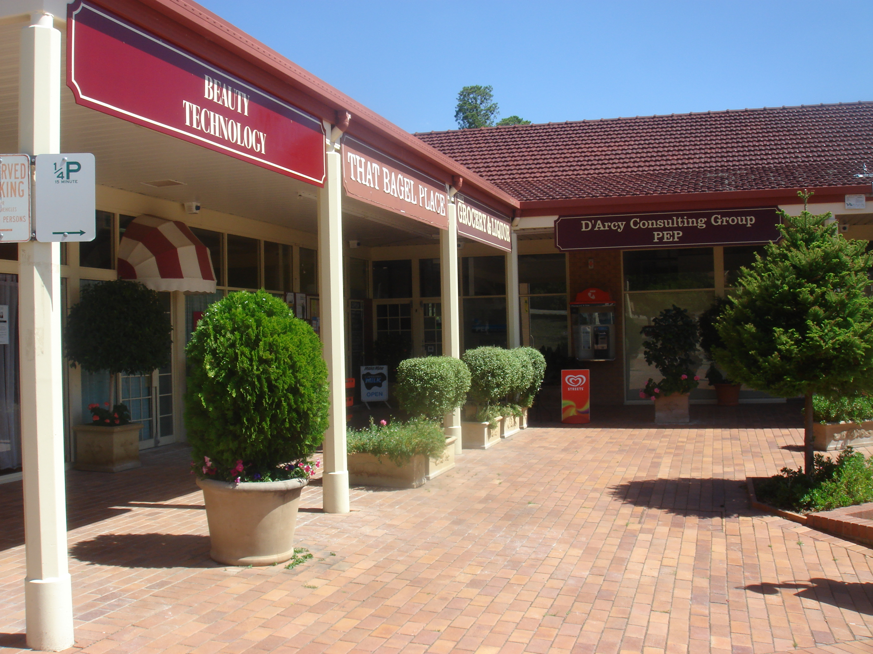 Local shops in Isaacs, Australian Capital Territory. Signs read: "Beauty Technology", "That Bagel Place", "Grocery & Liquor", "D'Arcy Consulting Group PEP". Taken by Adam Leayr on 20th January 2007.